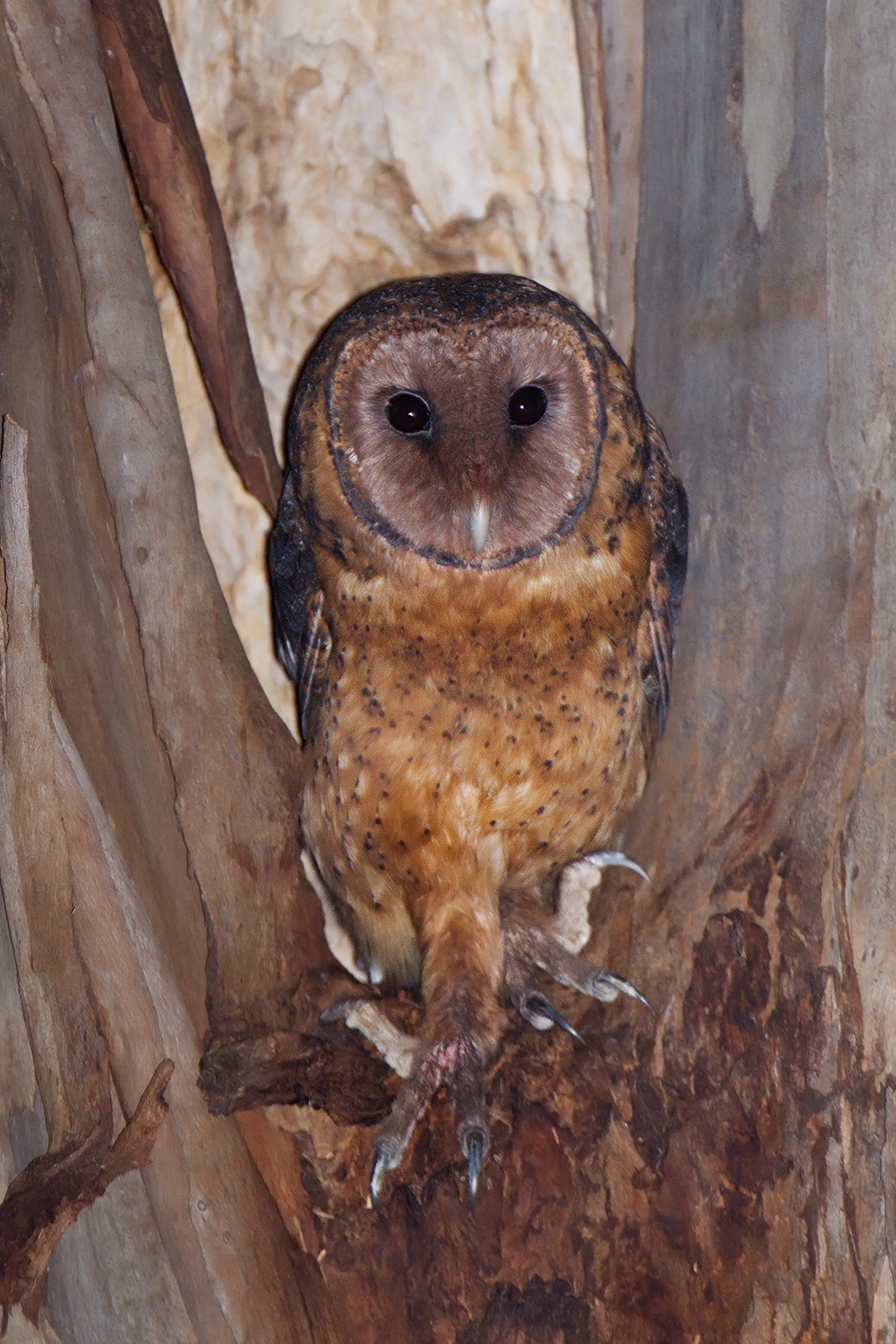 Female of Tasmanian Masked Owl (Tyto novaehollandiae castanops), Port Arthur, Tasmania, Australia